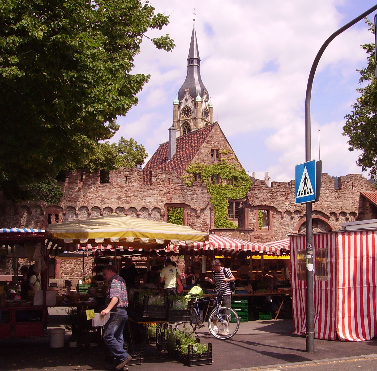 Heidelberg-Handschuhsheim, Germany